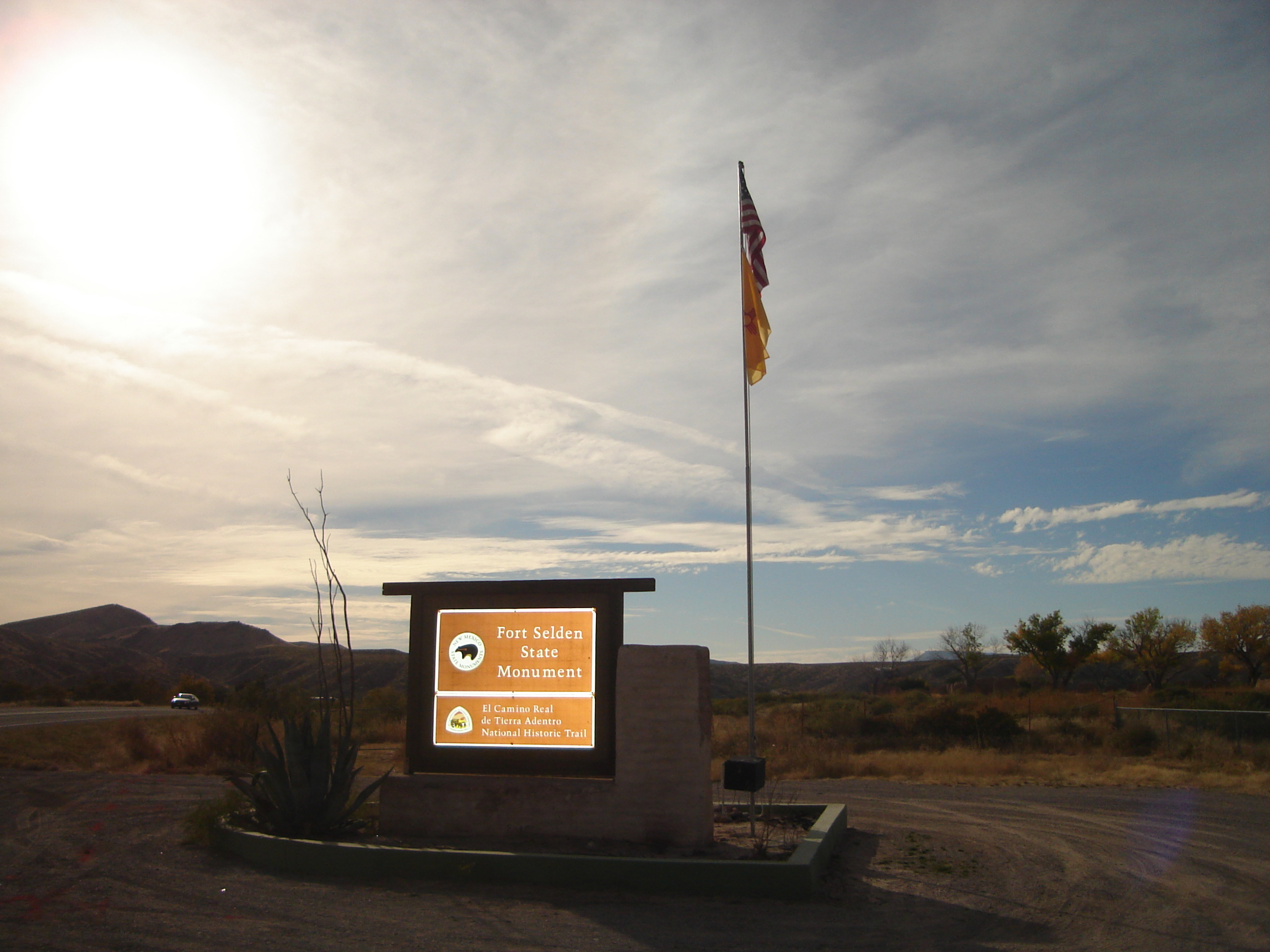 Highway entrance to Fort Selden State Monument.